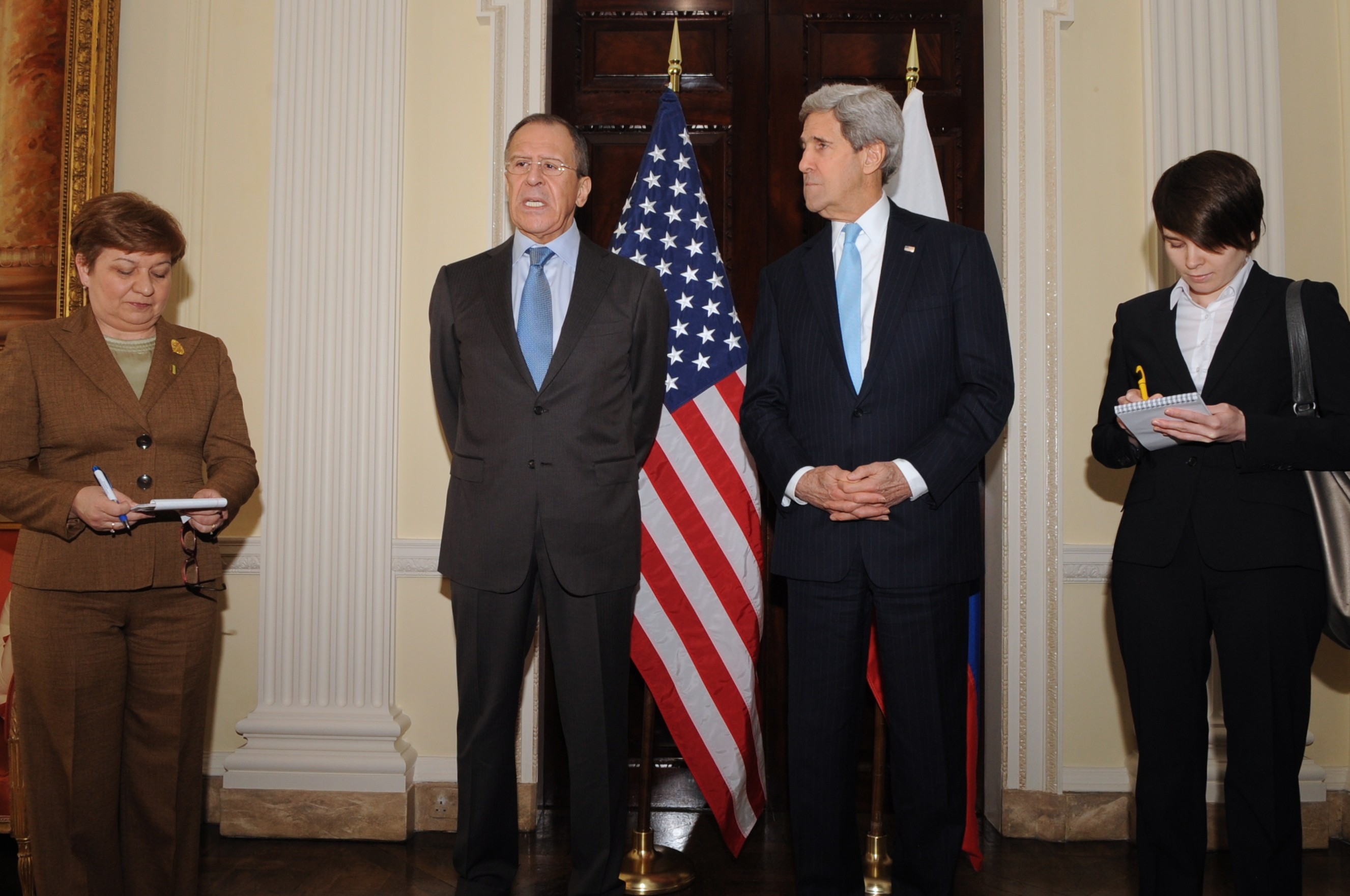 Flanked by a pair of translators, Russian Foreign Minister Sergey Lavrov addresses reporters before a meeting with U.S. Secretary of State John Kerry at Winfield House, the U.S. Ambassador's Residence in London, United Kingdom, on March 14, 2014. [State Department photo/ Public Domain]